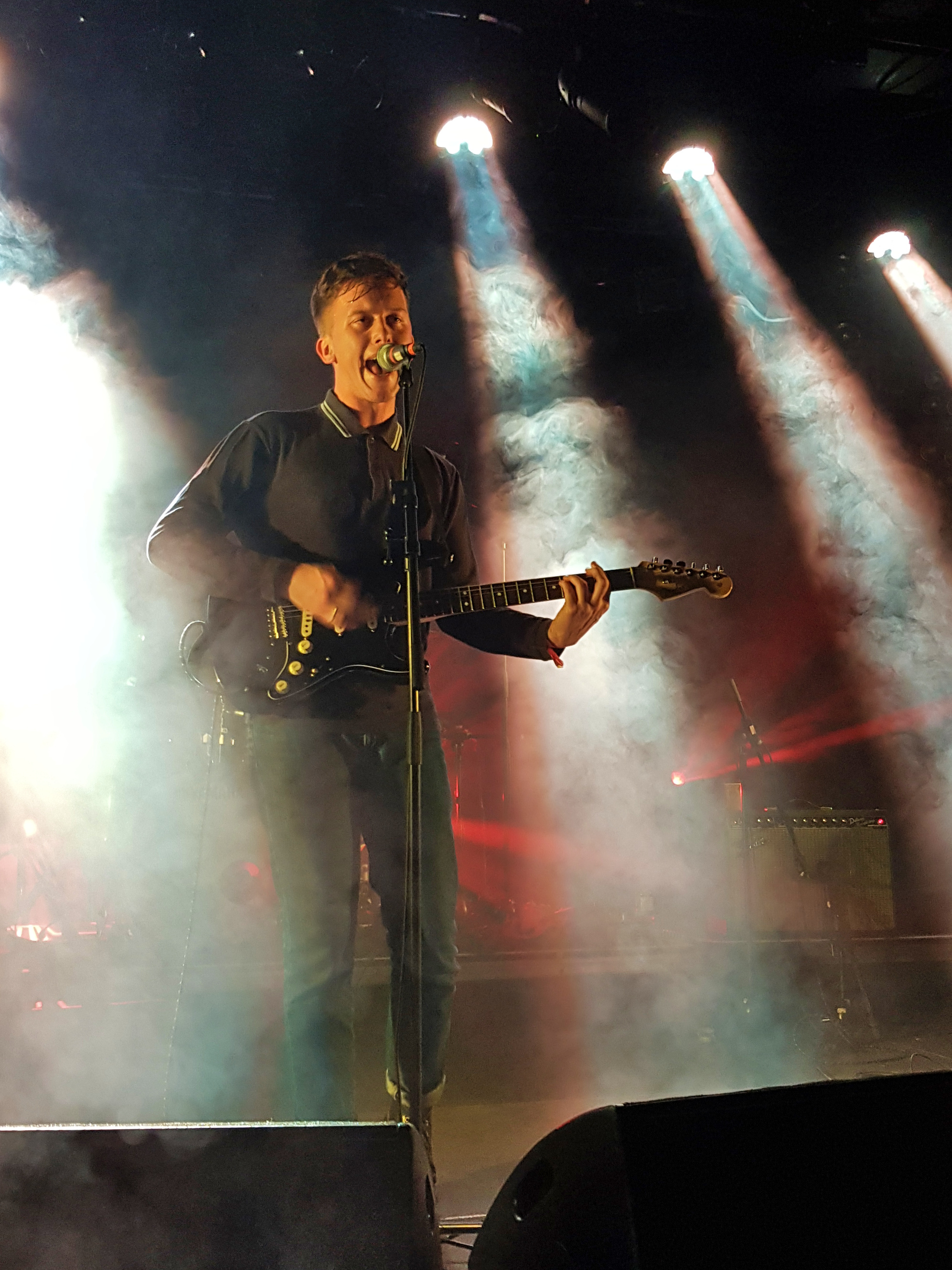 Ten Tonnes (Waves Vienna 2018)